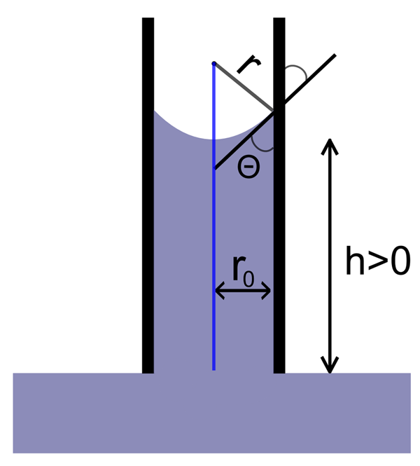 Jurin equation